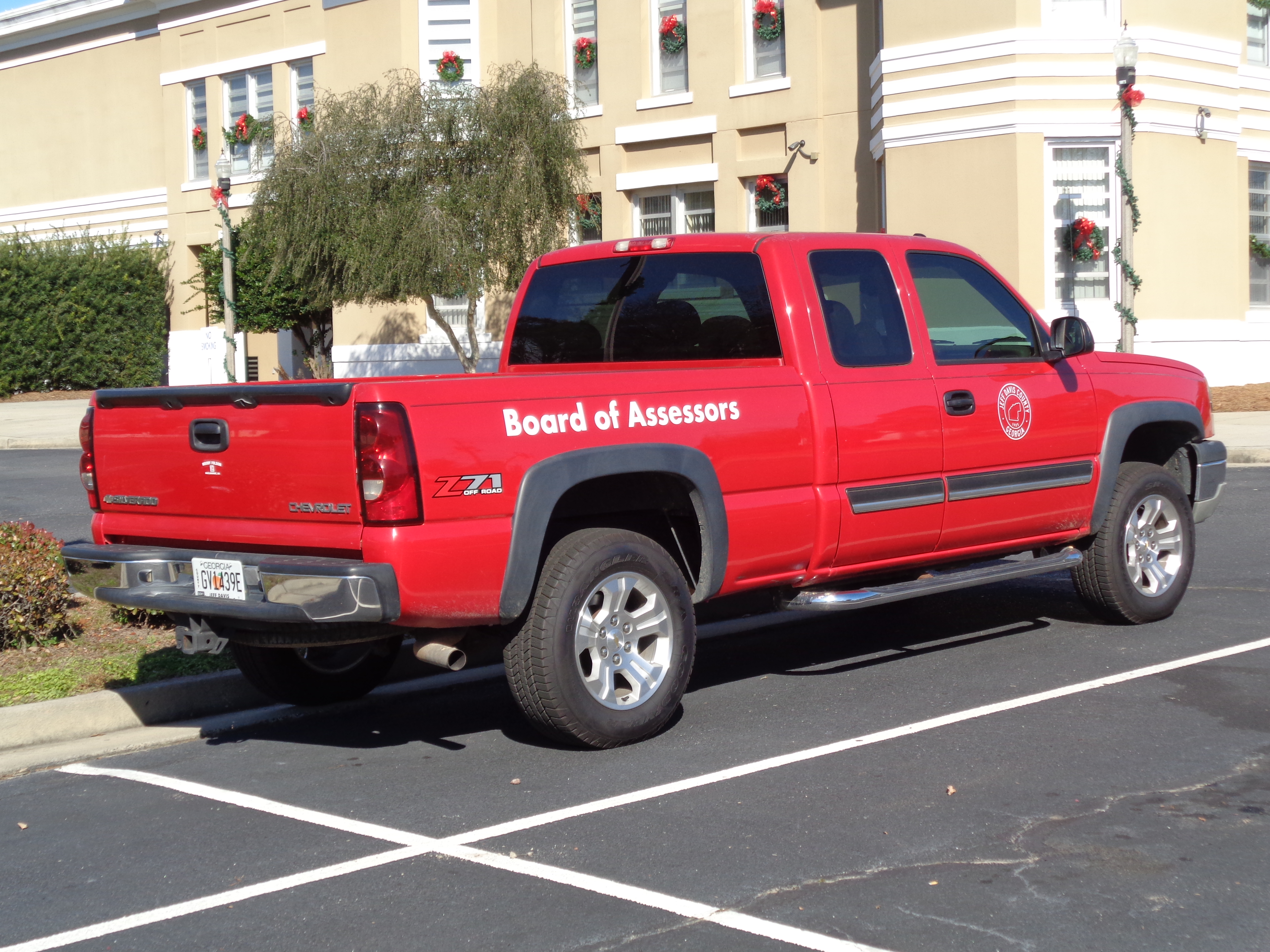 Hazlehurst, Jeff Davis County, Georgia